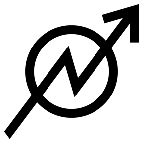 Occupation movement logo